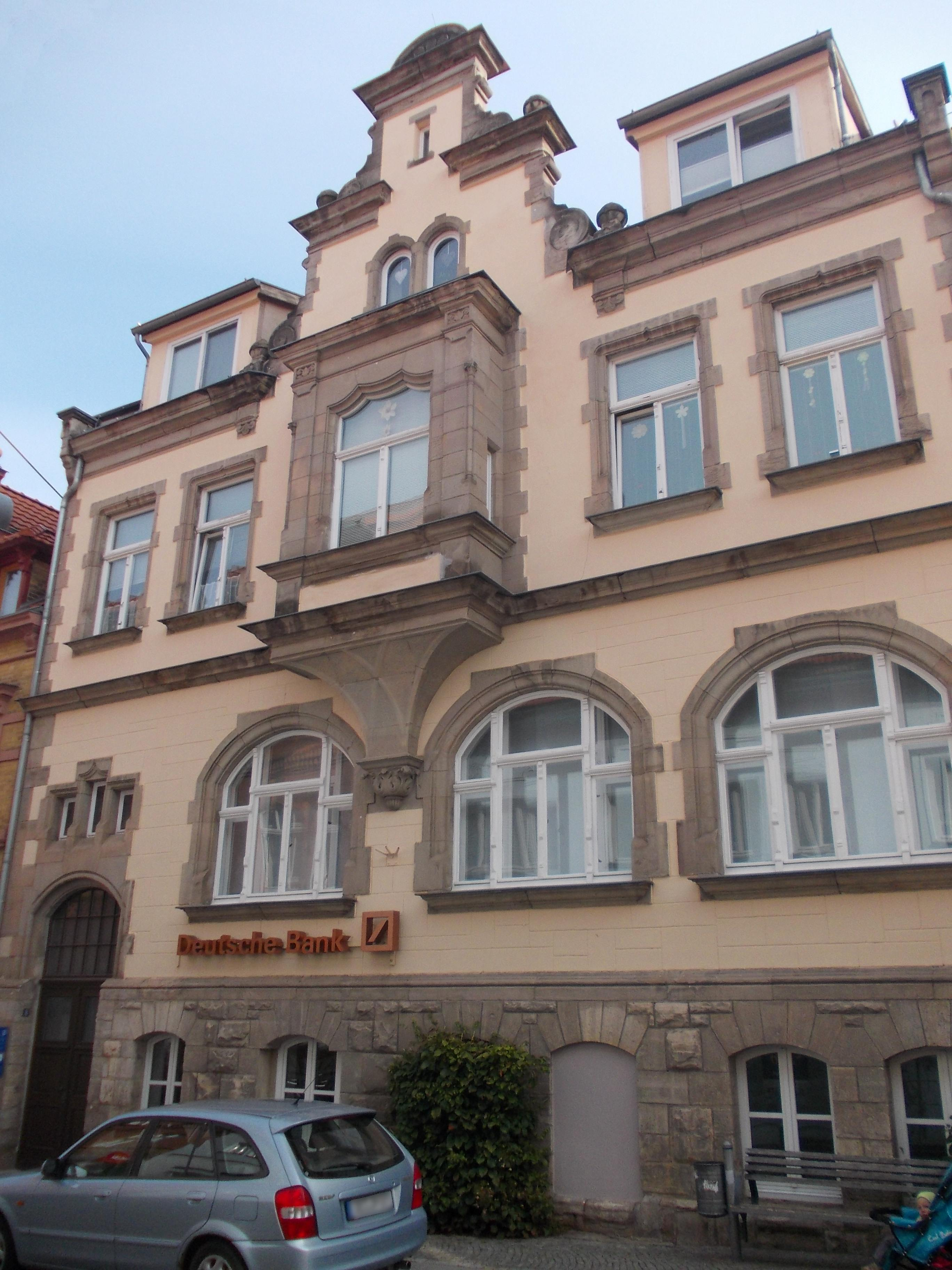 No. 8, Göpenstrasse in Sangerhausen (Mansfeld-Südharz district, Saxony-Anhalt)